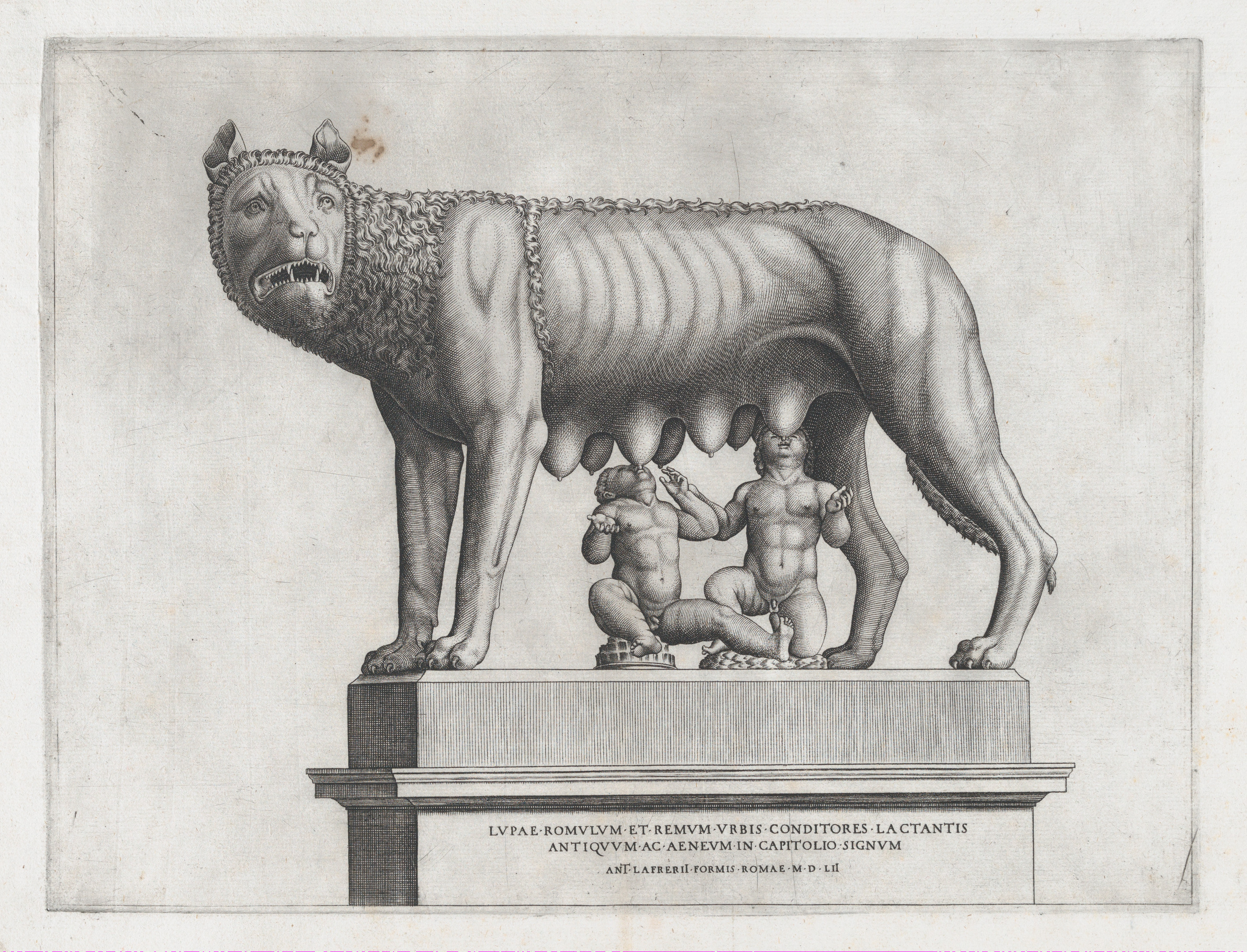 Print; Prints